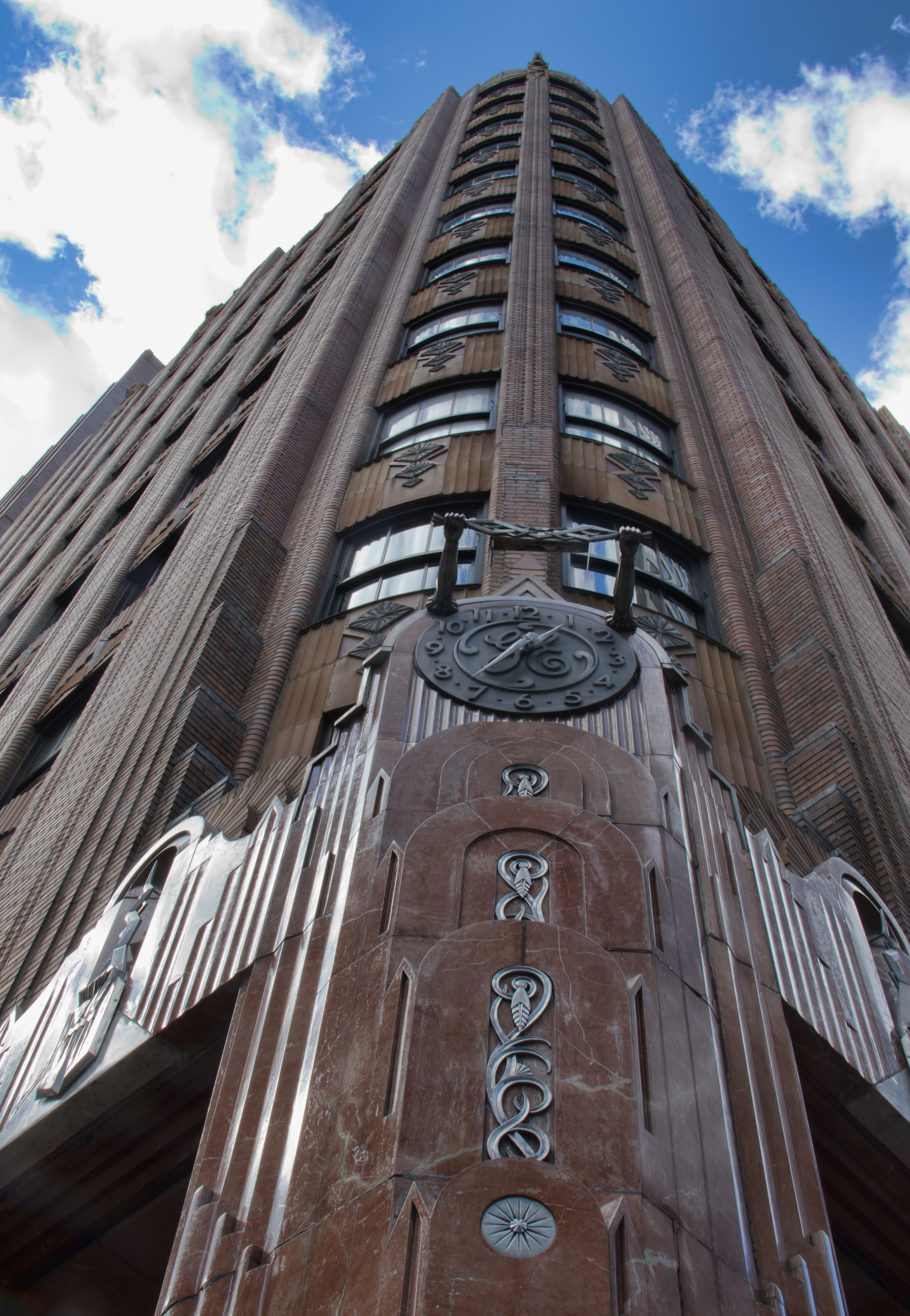 Site: 570 Lexington